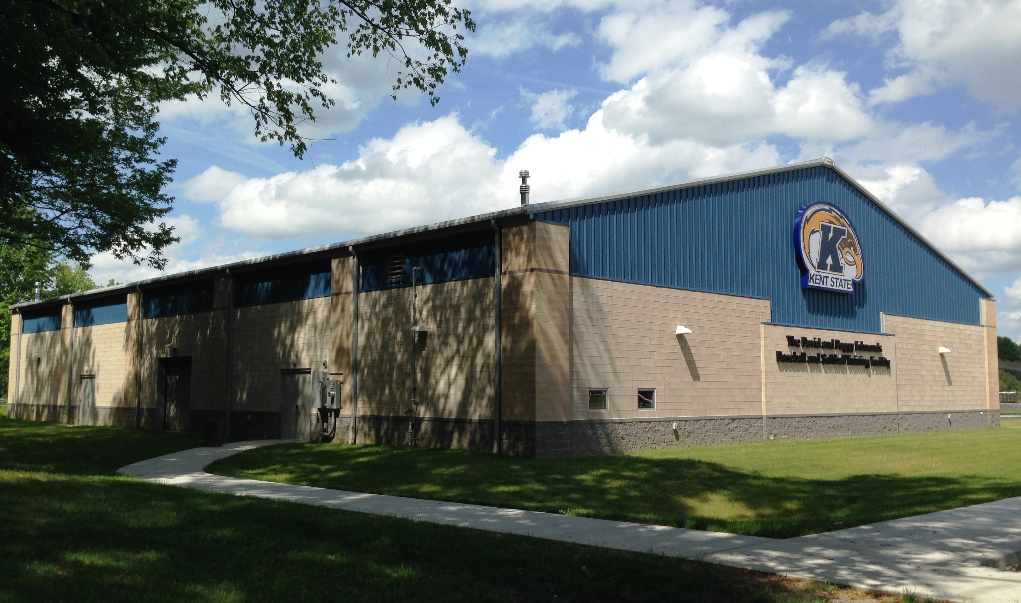 Dave and Peggy Edmonds Baseball and Softball Training Facility on the campus of Kent State University in Kent, Ohio, United States. It is adjacent to Schoonover Stadium and was dedicated in 2014.